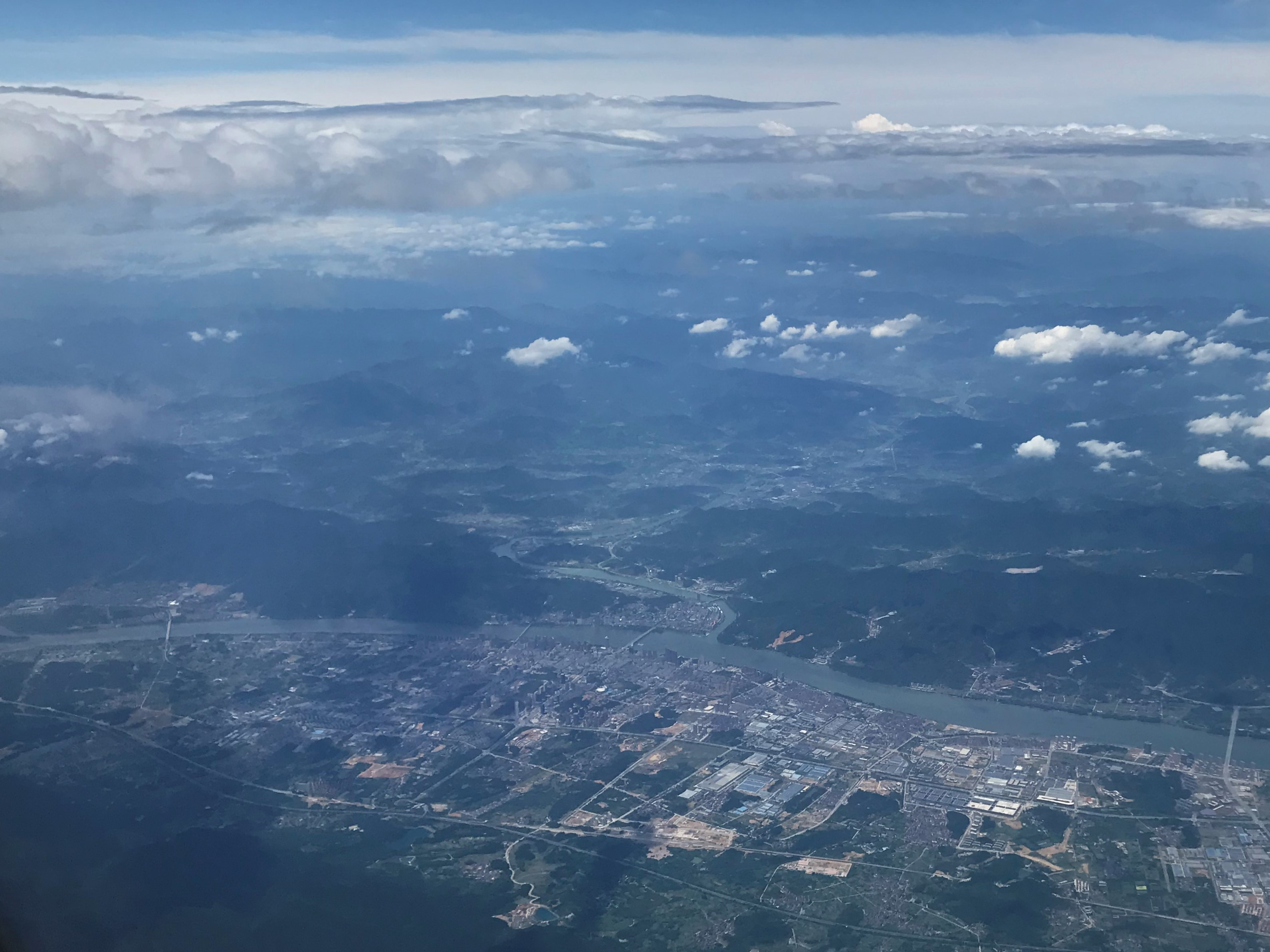 201806 Tonglu, Hangzhou